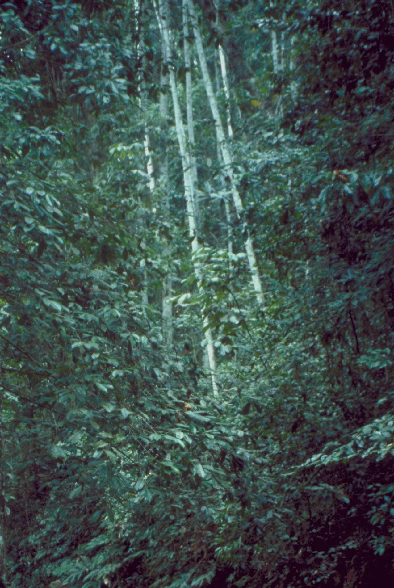 Maesopsis eminii, image taken in Amani Nature Reserve, Tanzania, Africa